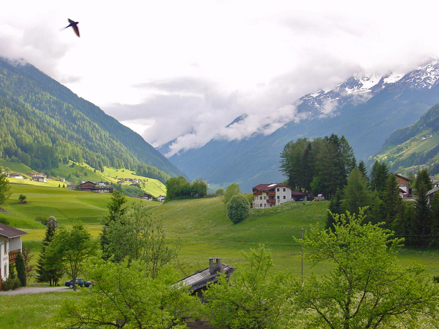 Kampl, view direction Neustift